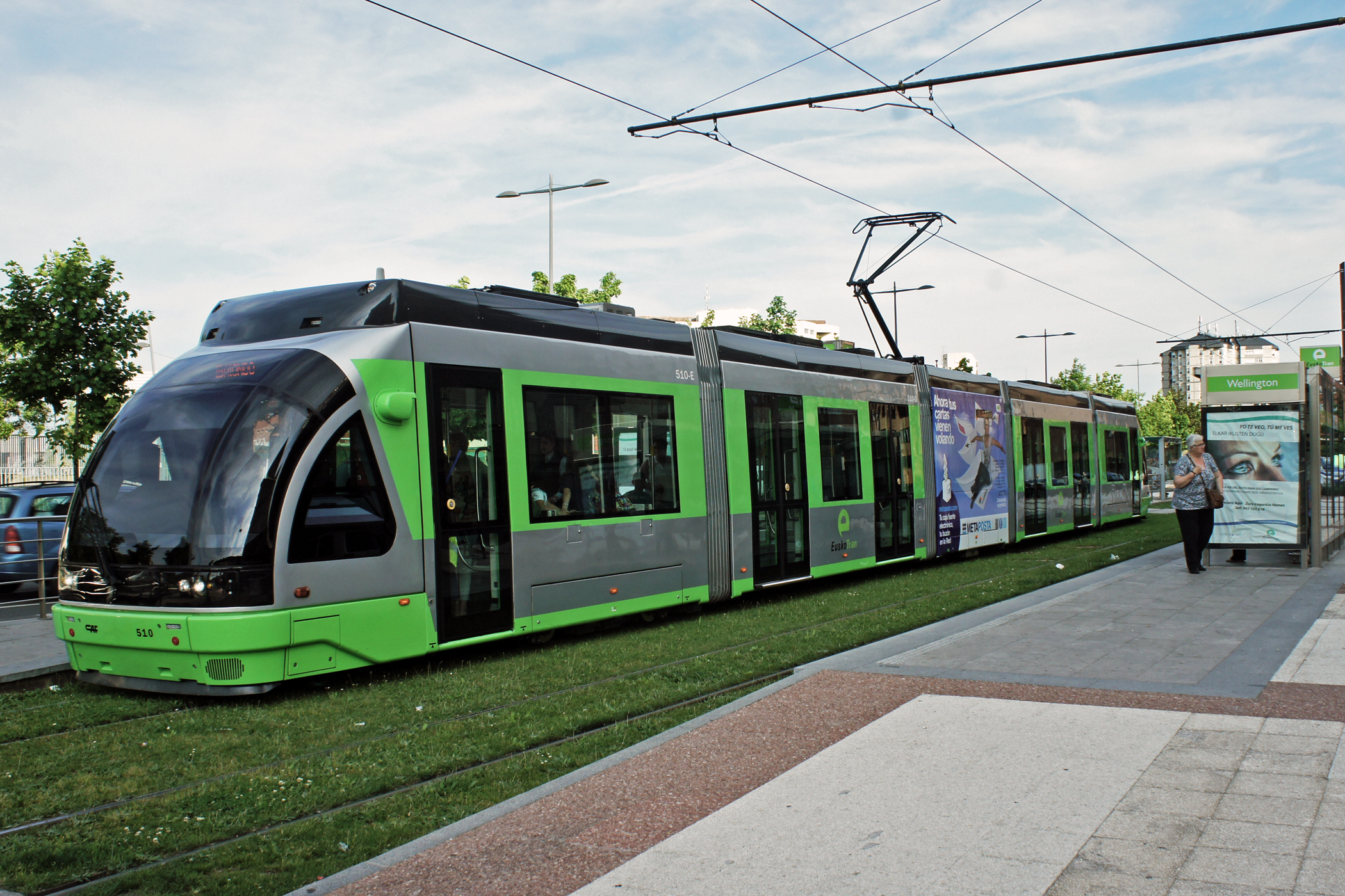 Eusko Tran, Vitoria, Basque Country, Spain